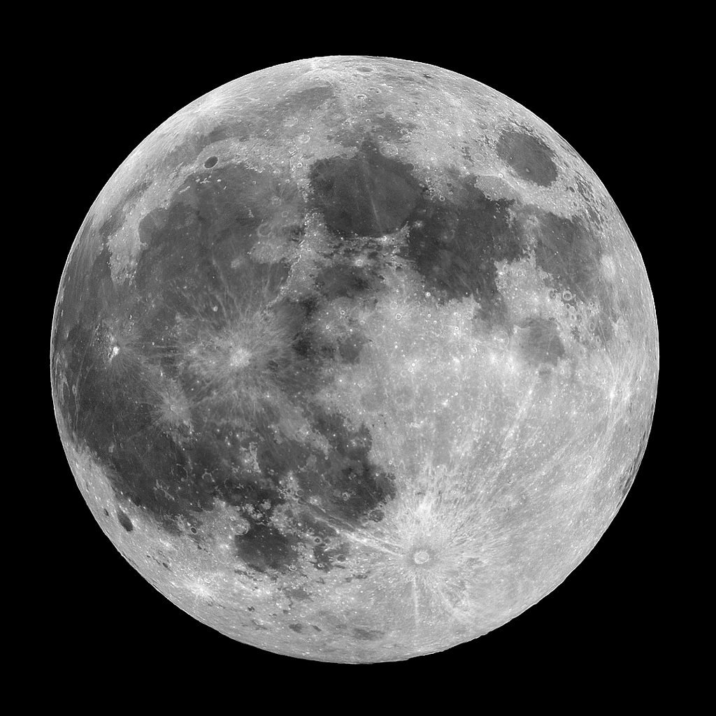 Full moon taken with SCT C9.25 and Toucam. Mosaic made of 24 single images.